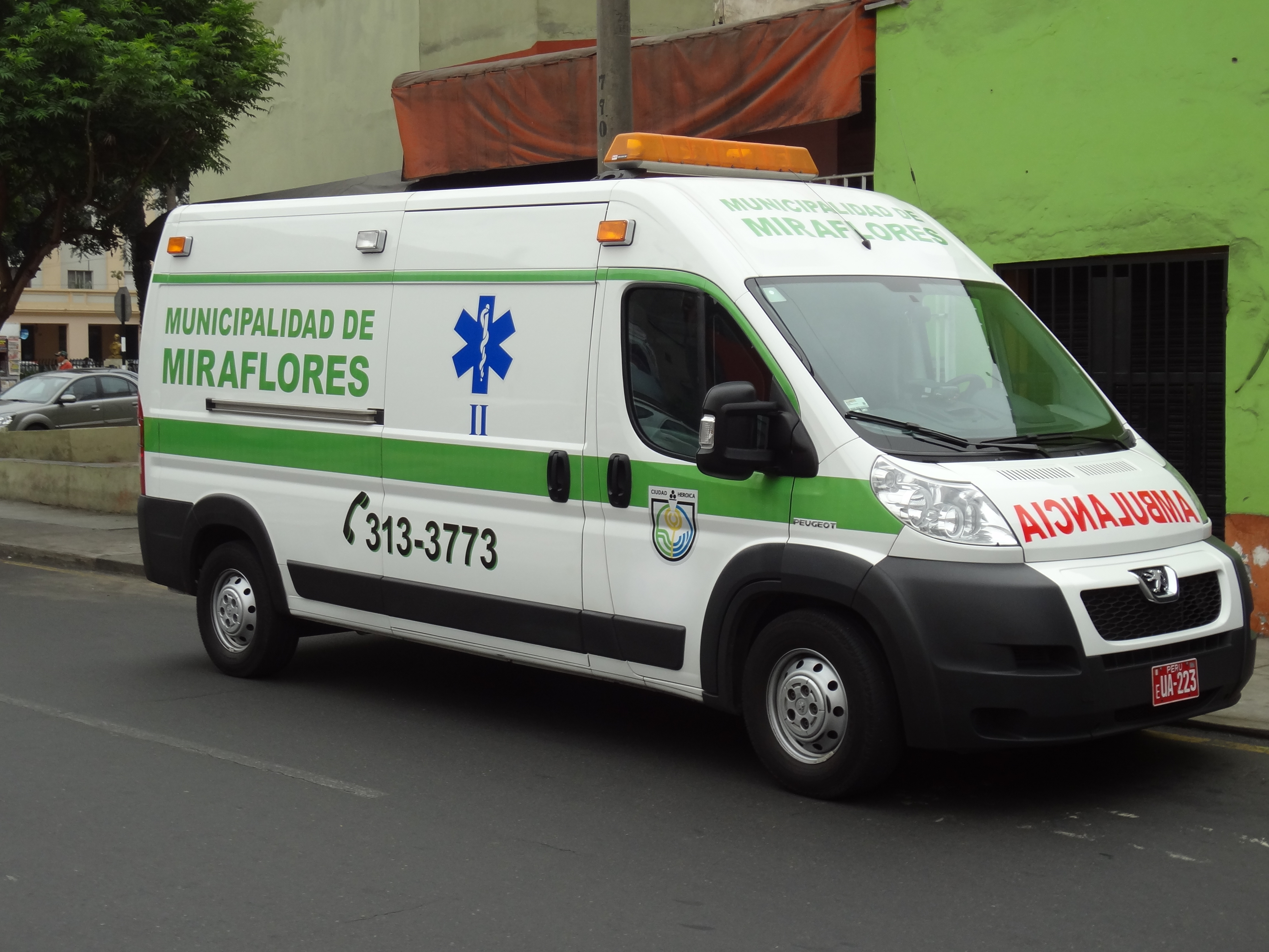 Ambulance Municipalidad Miraflores - Lima/Miraflores - Av. Gral. Suarez. With "AMBULANCIA" in mirror writing ("AICNALUBMA").